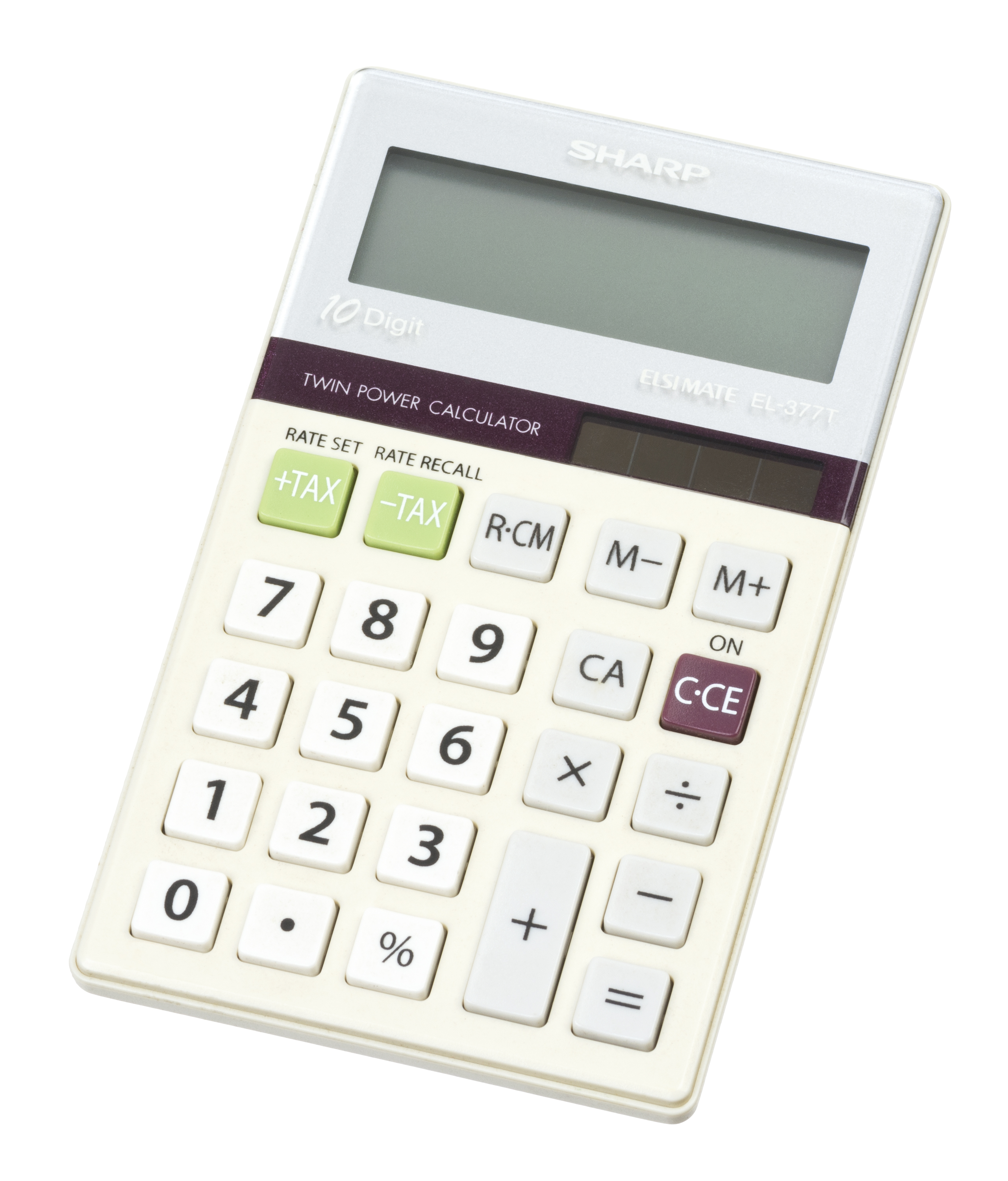 A basic, Sharp-brand solar calculator.